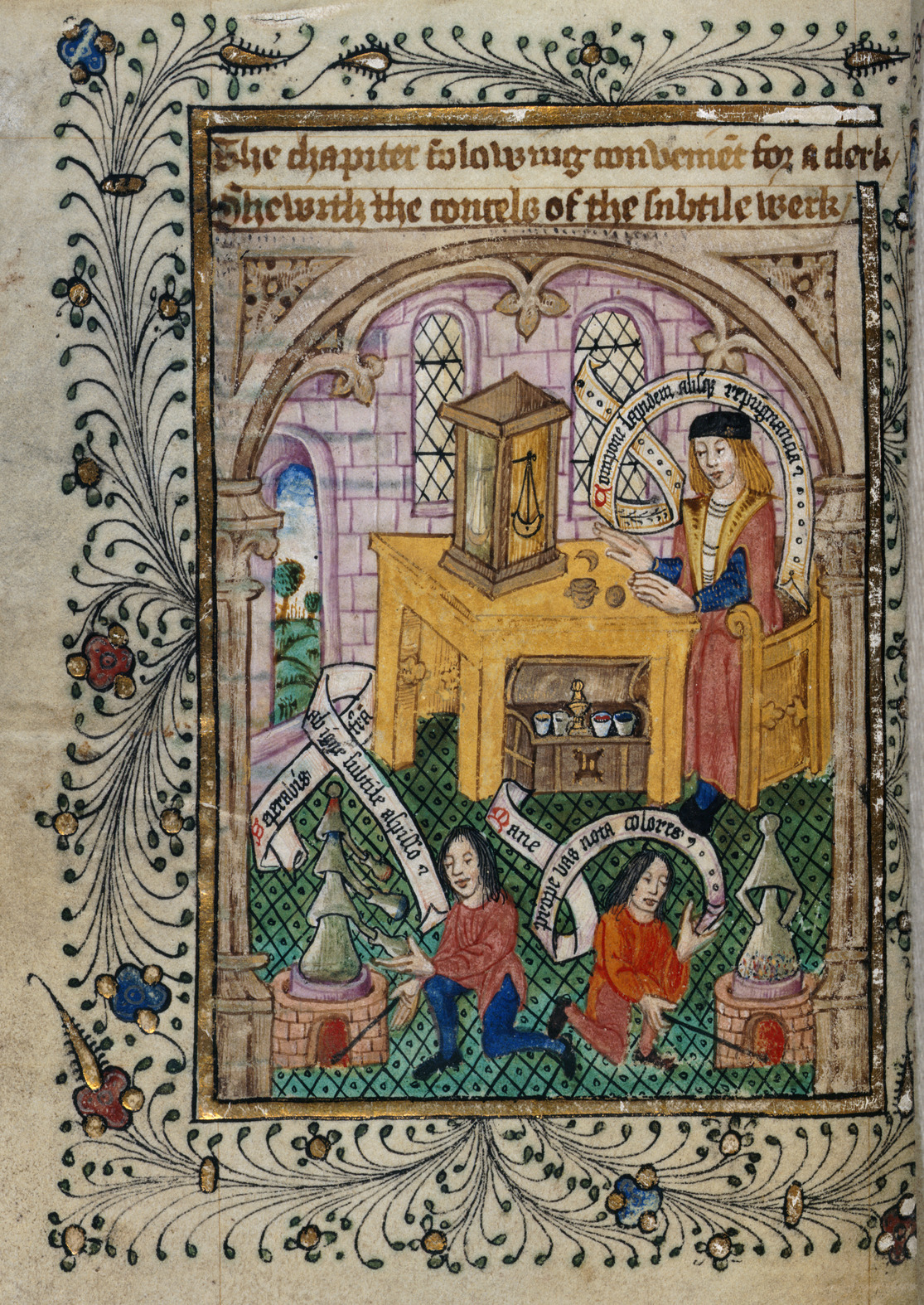 Preparation of experiments [Whole folio]The alchemist is seated at a table with bowl and scales; with two kneeling figures attending to the furnaces. Decorated borders